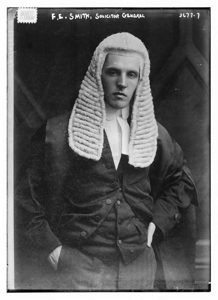 The Rt Hon. Frederick Edwin Smith, 1st Earl of Birkenhead in 1915